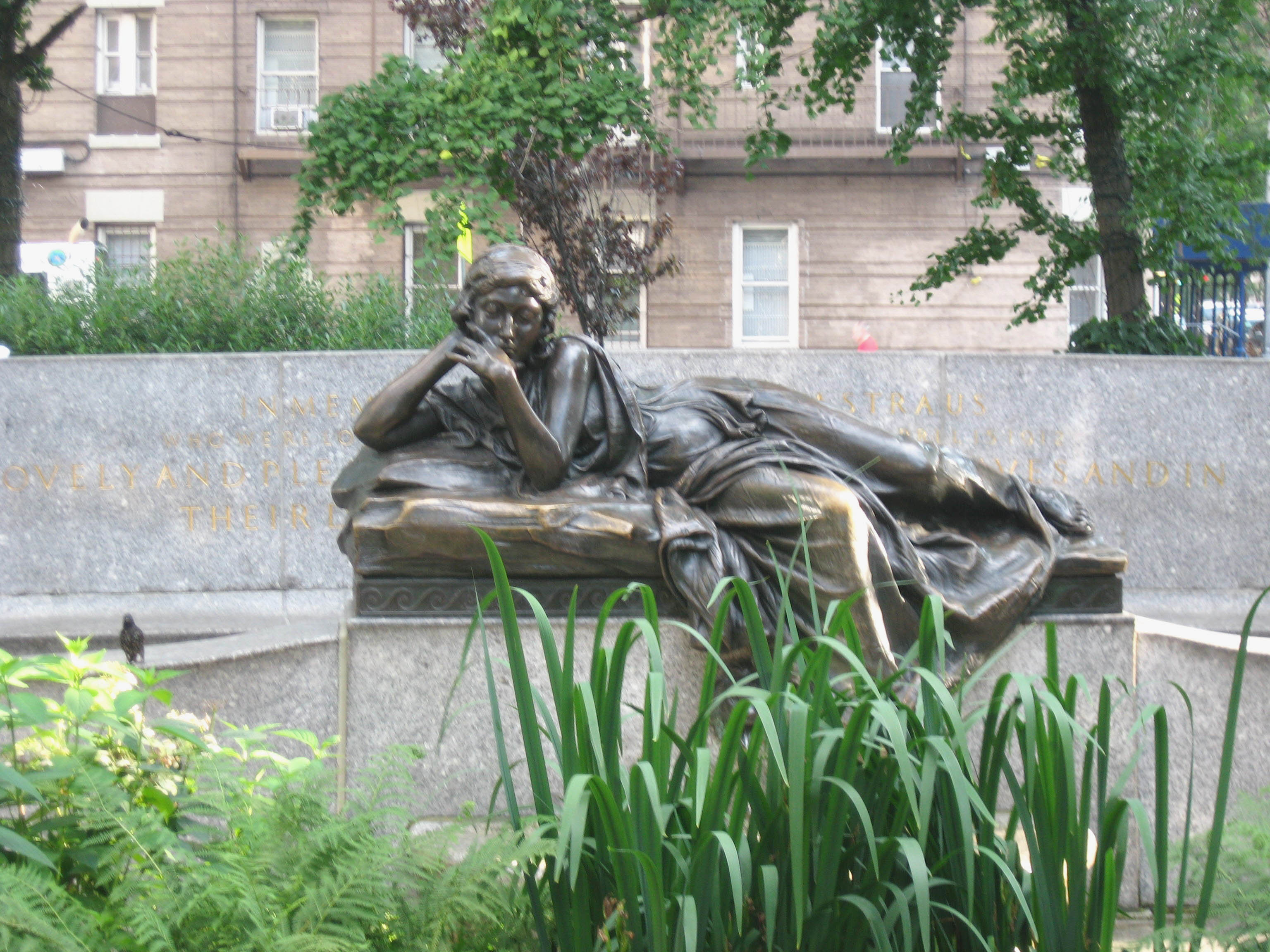 Looking south on a sunny early afternoon at RMS Titanic Memorial statue by Augustus Lukeman in Straus Park on Broadway commemorating Ida Straus.